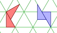 A didrafter is a polydrafter with two cells. An extended polydrafter is one that does not conform to the triangle grid, unlike an ordinary polydrafter.